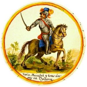 Coat of Arms of Veiviržėnai city in 1792